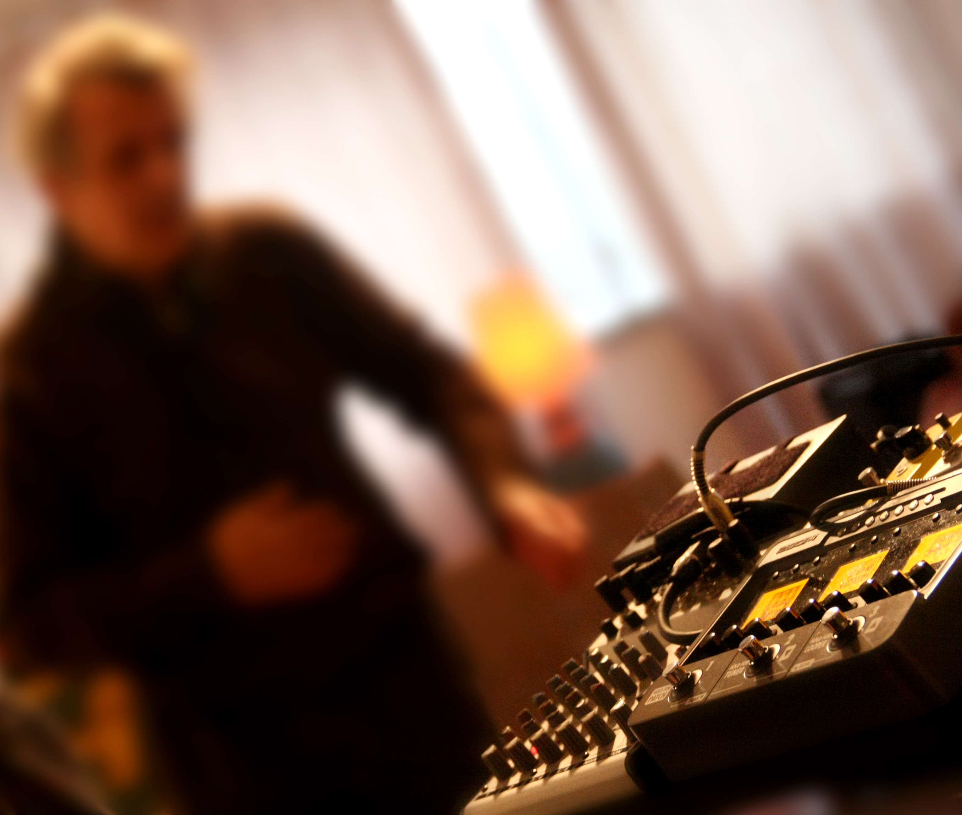 Bruno Romani during conduction at Ex Oleificio, Lucca, Italy